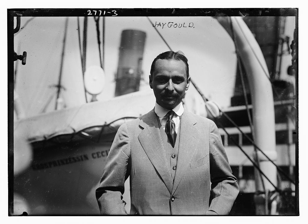 Jay Gould (LOC) Bain News Service,, publisher. Jay Gould II [between ca. 1910 and ca. 1915] 1 negative : glass ; 5 x 7 in. or smaller. Notes: Title from data provided by the Bain News Service on the negative. Photo shows Jay Gould II (1888-1935) on the German Liner S.S. Kronprinzessin Cecilie. (Source: Flickr Commons project, 2009) Forms part of: George Grantham Bain Collection (Library of Congress). Format: Glass negatives. Repository: Library of Congress, Prints and Photographs Division, Washington, D.C. 20540 USA, General information about the Bain Collection is available at Persistent URL: Call Number: LC-B2- 2771-3